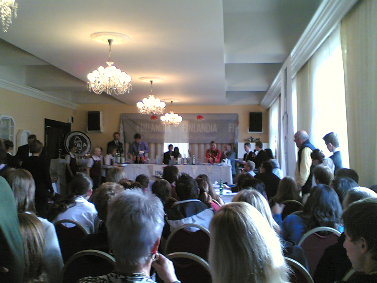 Competition of young bartenders Finlandia Junior Cup 2006 in Hospitality School in Mariánské Lázně, the Czech Republic